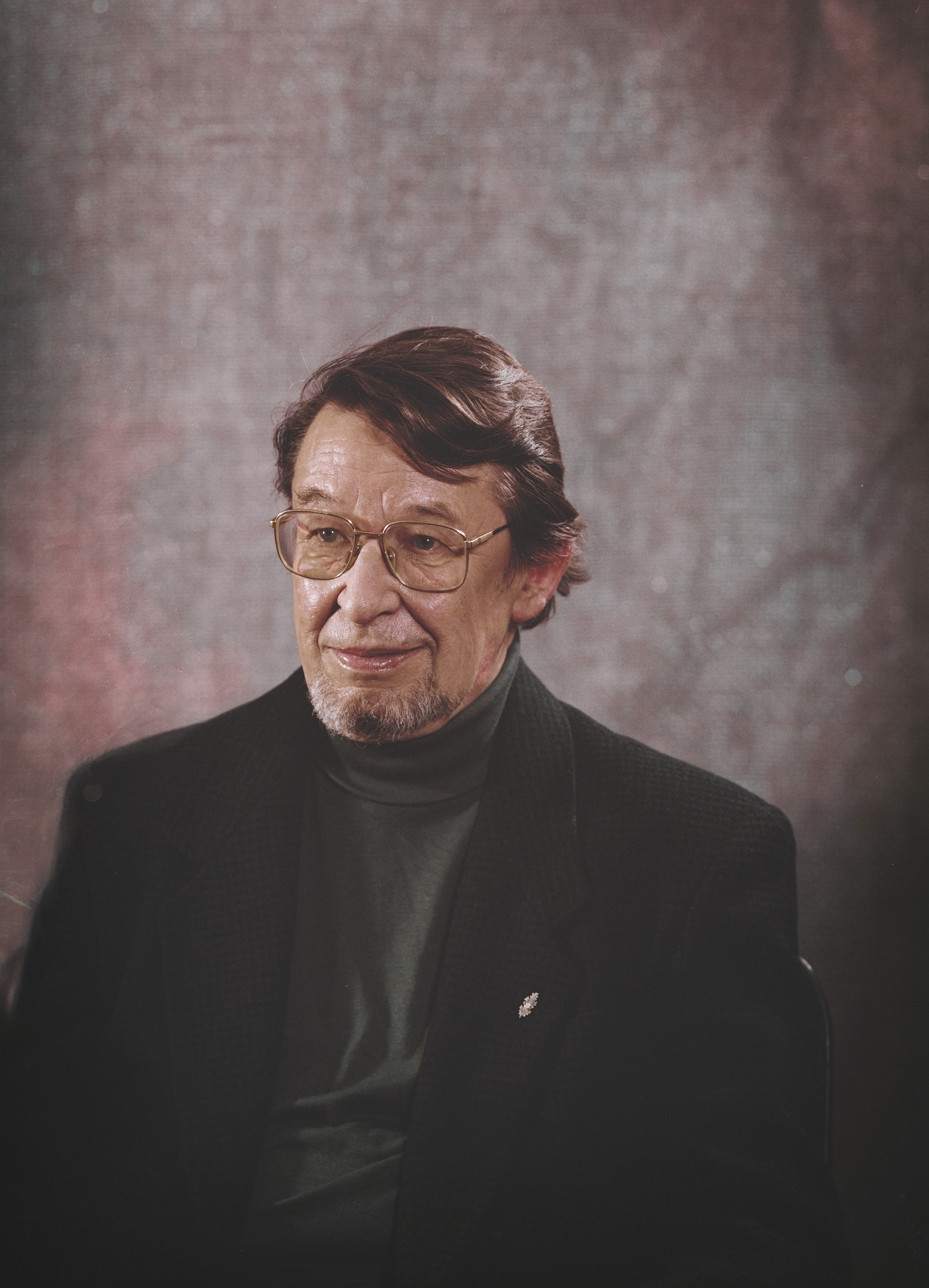 Photograph of the Finnish organist and educator Janne Raitio (1919–1997).